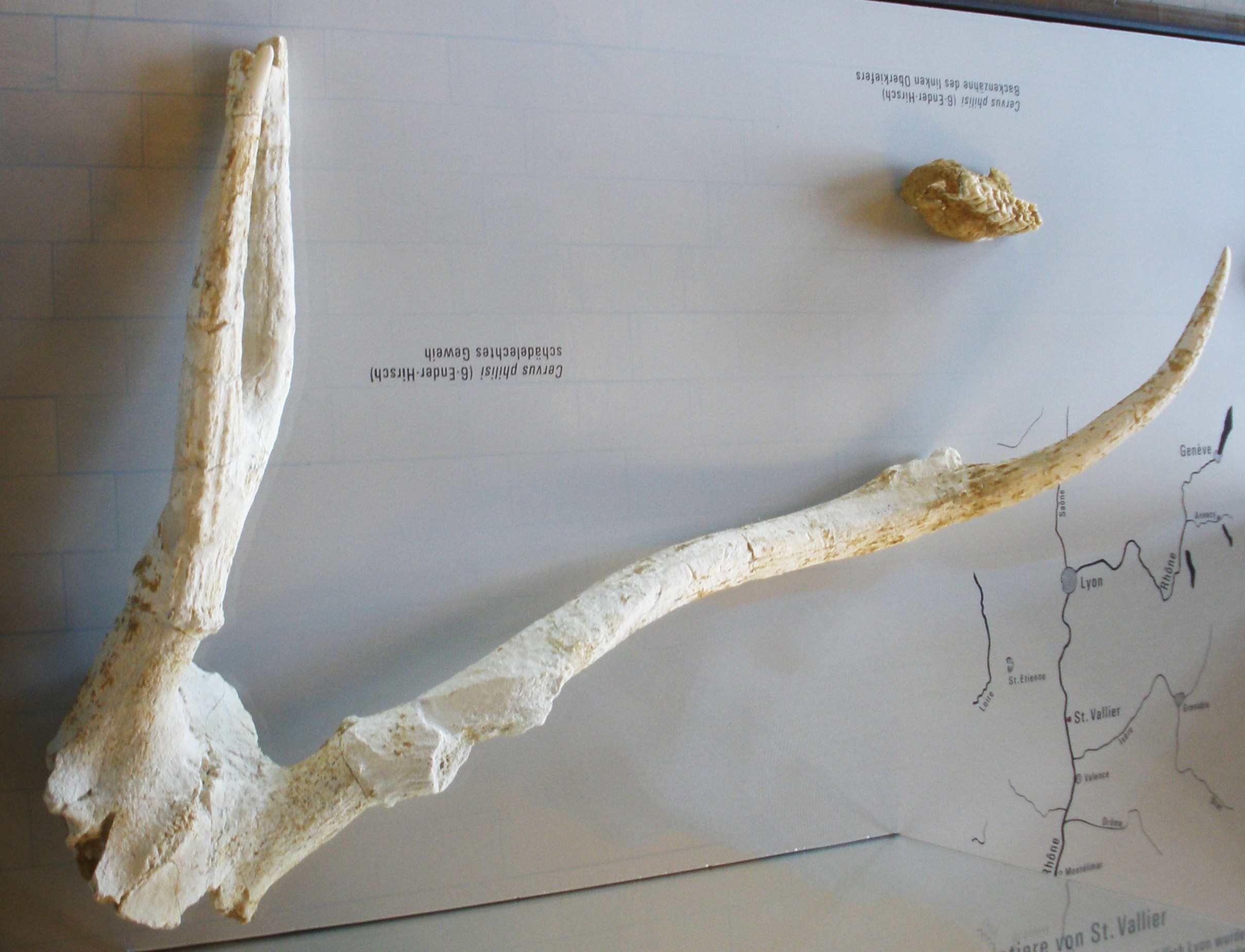 fossil Cervus philisi